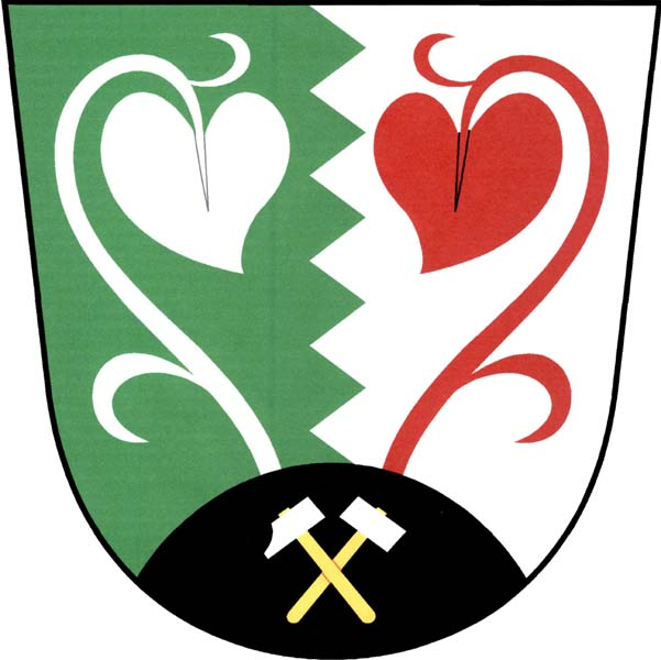 Municipal coat of arms of Pila village, Karlovy Vary District, Czech Republic.